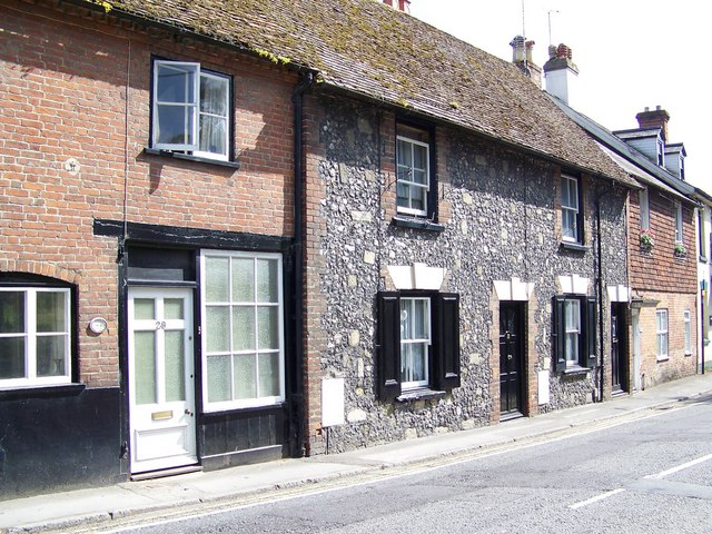 Cottages, Amesbury, near to Amesbury, Wiltshire, Great Britain. A variety of materials as used to make up this row of cottages.